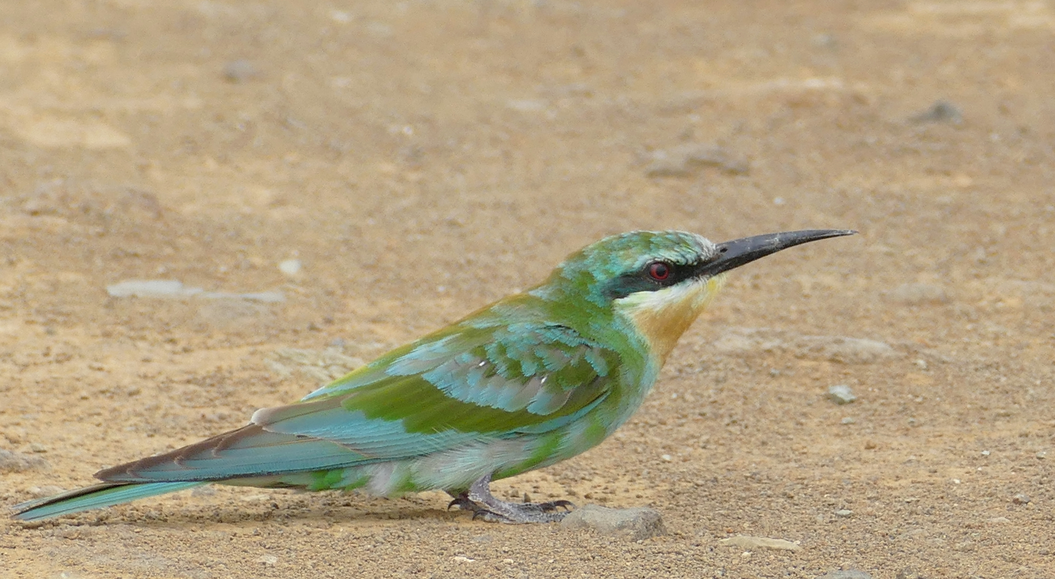 Western Shores, iSimangaliso Wetland Park, St Lucia, KwaZulu-Natal, SOUTH AFRICA